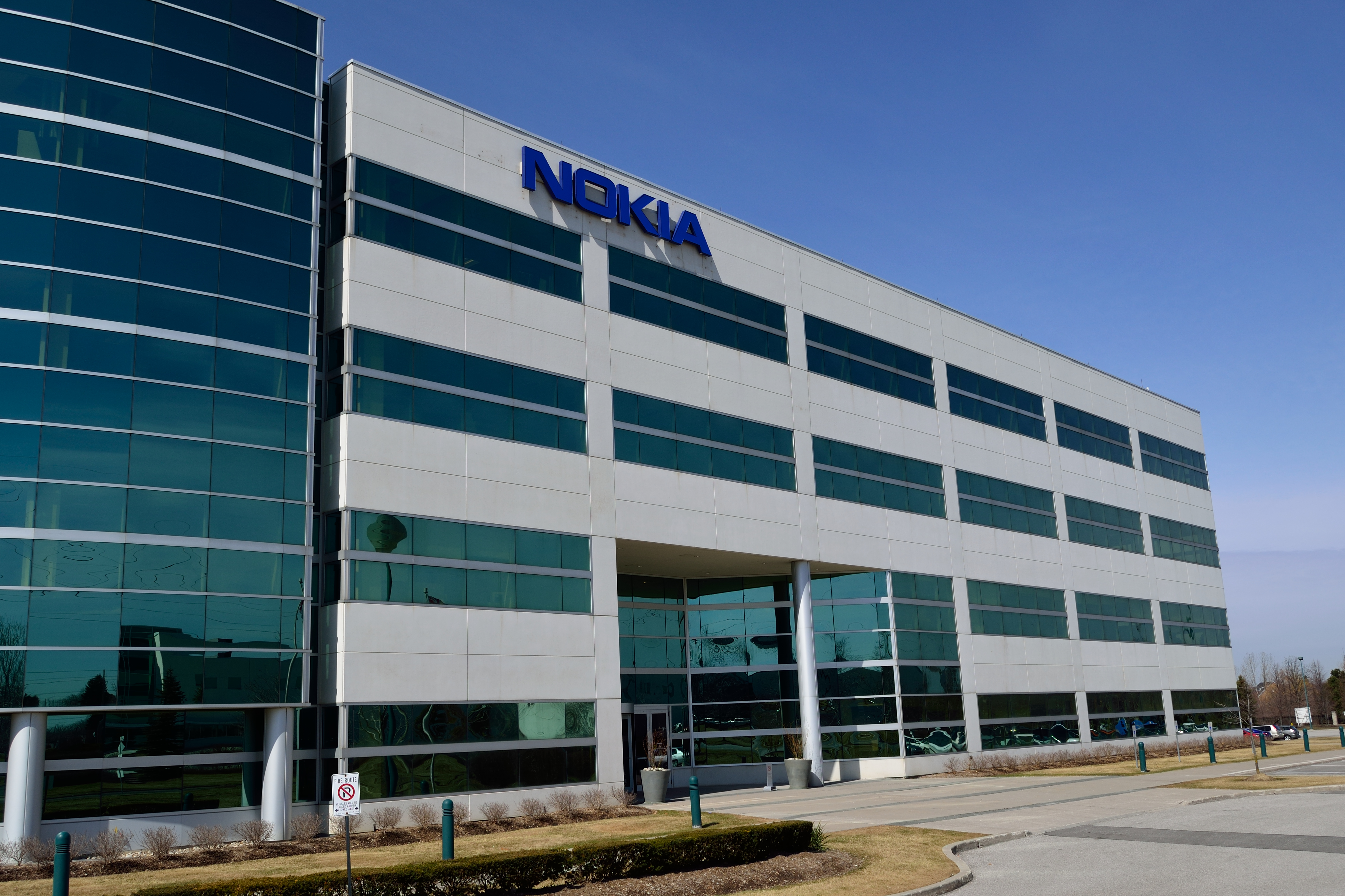 A Nokia office building in North America.